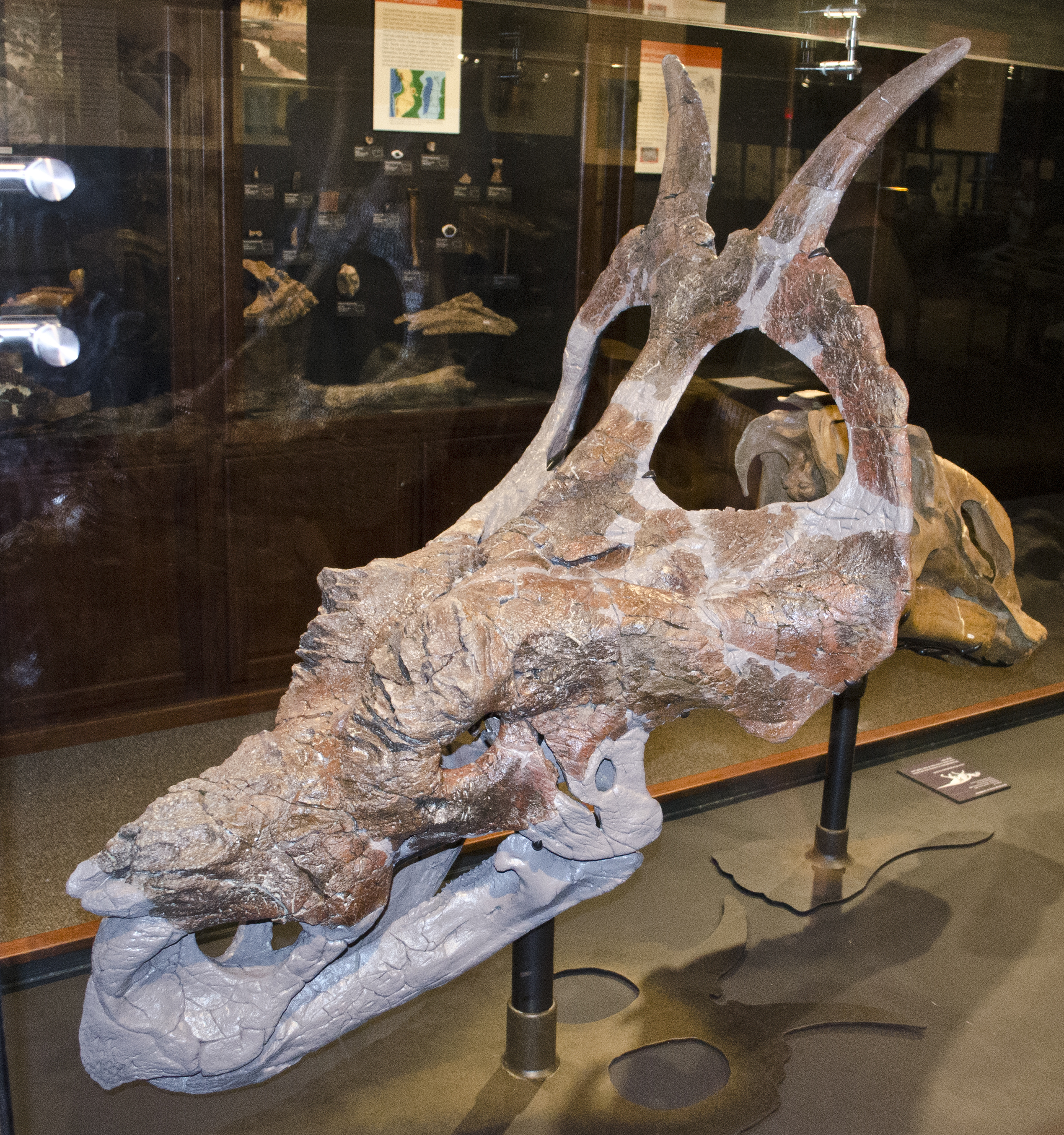 Achelousaurus horneri skull, collected in Glacier County, Montana, at the Museum of the Rockies in Bozeman, Montana. The Ceratopsidae are those dinosaurs with head frills. There are three large subgroups of Ceratopsidae: Centrosaurinae, Ceratopsinae, and Chasmosaurinae. The Triceratopsini are a "tribe" of the Chasmosaurinae -- a genus so vast that it gets the special name "tribe". The Pachyrhinosaurini are a "tribe" within the Centrosaurinae. Achelousaurus is a genus within the Pachyrhinosaurini. So far, only three skulls and some limited skeletal remains have been collected anywhere in the world -- and all of them in Montana. Their bony frills are quite similar to the Styracosaurus albertensis, although their other skull features (such as big bony bosses on the nose and behind the eyes) are not.